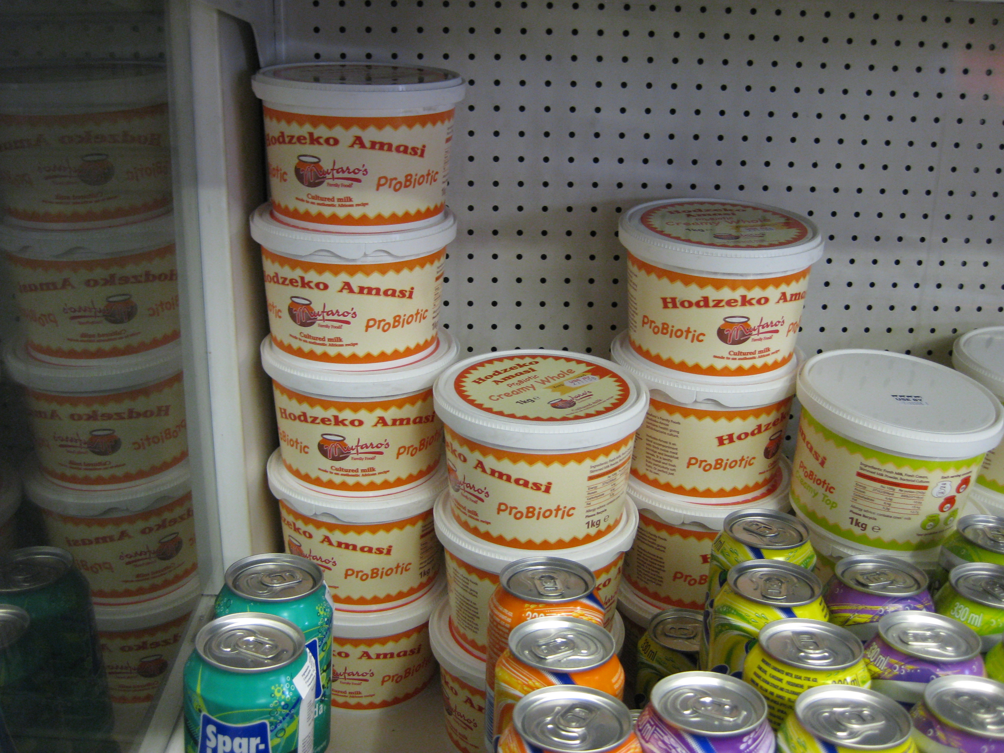 This traditional Nguni delicacy (soured milk or maas) is popular all over southern Africa. And in the East End of London too, seemingly.